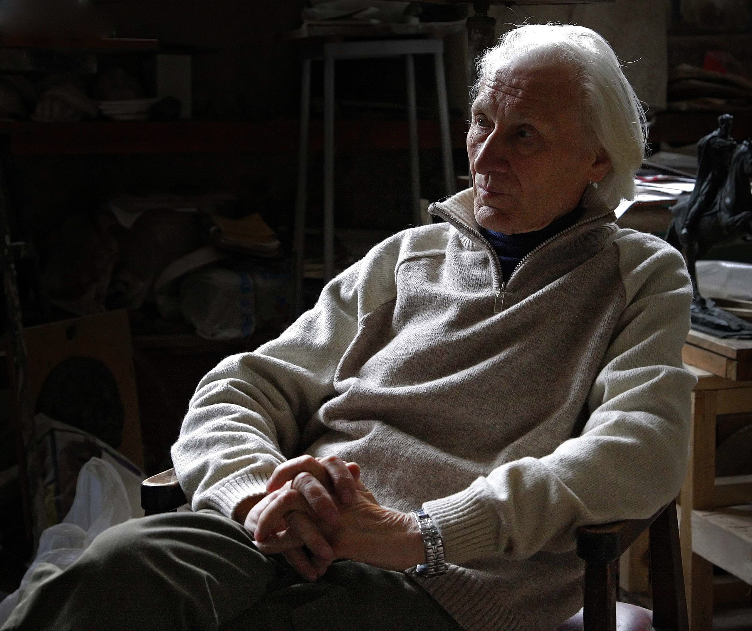 Belarusian sculptor Ivan Misko. Photo by Eugeny Kolchev.